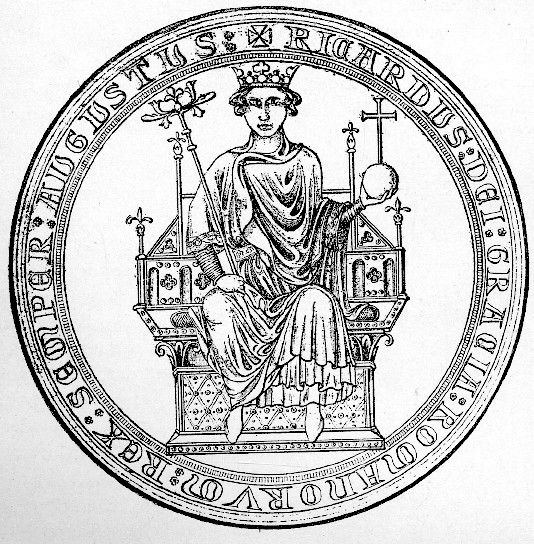 Reconstructive drawing of seal of Richard, Earl of Cornwall, King of the Romans (1209-1272). (See File:RisaCornwall.jpg). Seal inscribed: RICARDUS DEI GRATIA ROMANORUM REX SEMPER AUGUSTUS. ("Richard by the grace of God King of the Romans ever august"